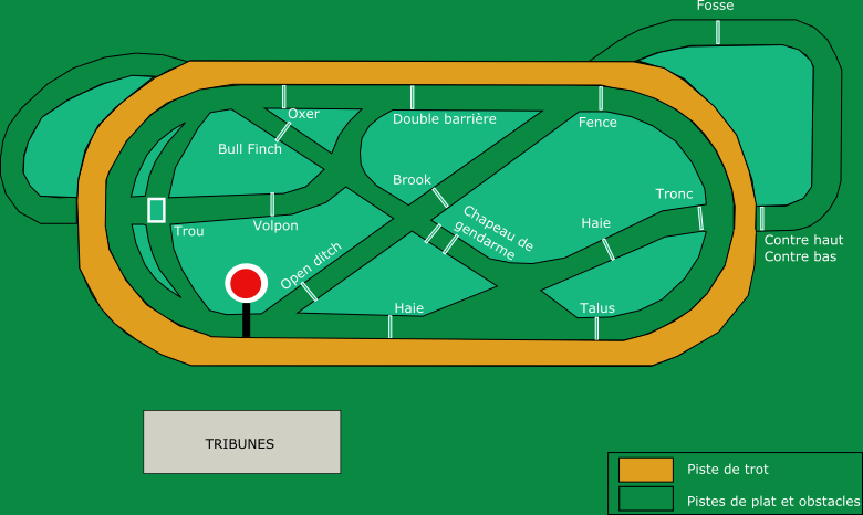 Argentan racetracks on Argentan racecourse